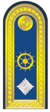 Rang insignia of the GDR Volksmarine until 1990, here shoulder strap of “Meister” (OR-6) – technical career.